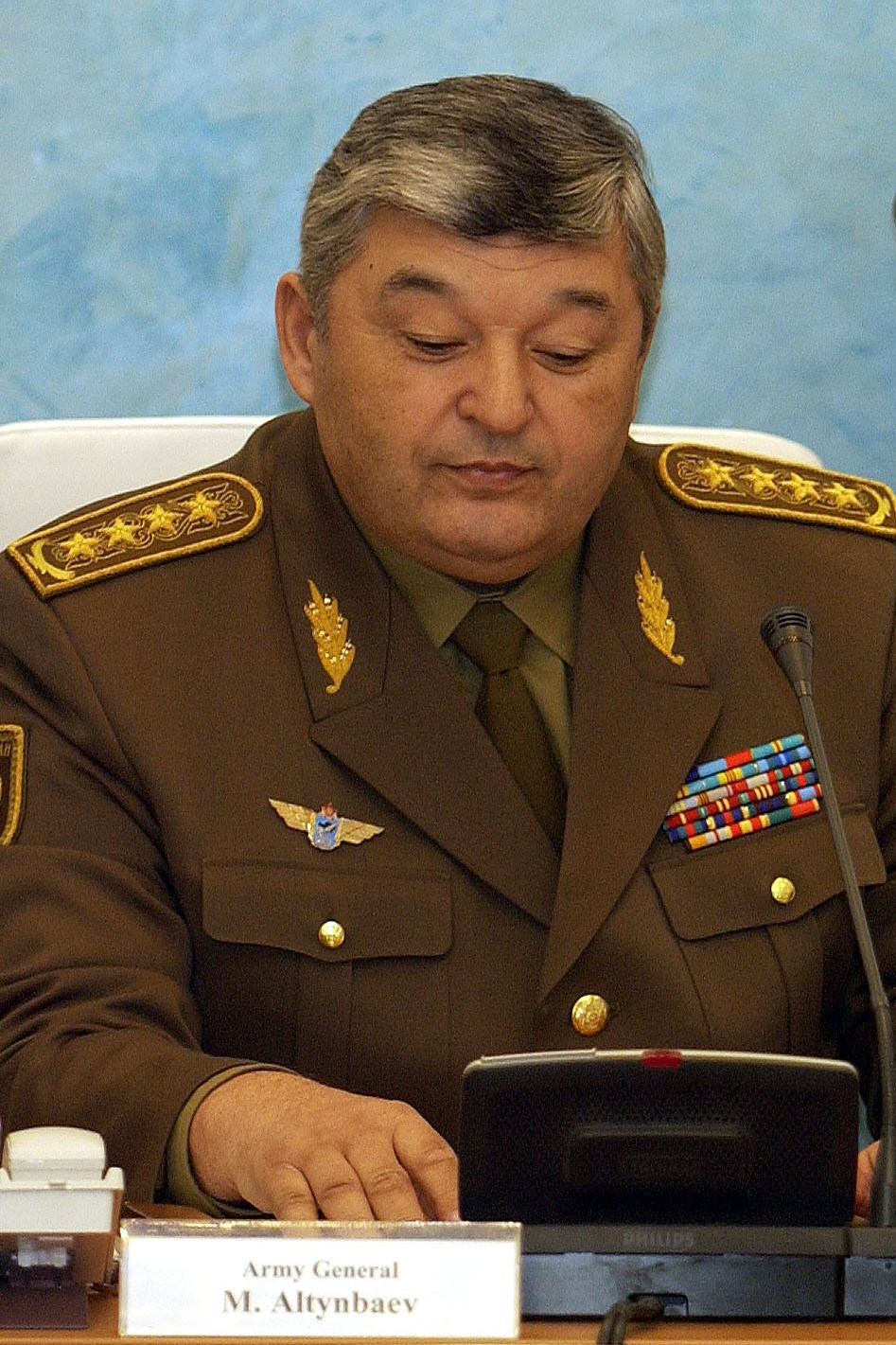 Kazakhstan's Minister of Defense Gen. Mukhtar Altynbayev receives a briefing from the Uzbeki military at the Ministry of Defense in Astana, Kazakhstan on Feb. 25, 2004